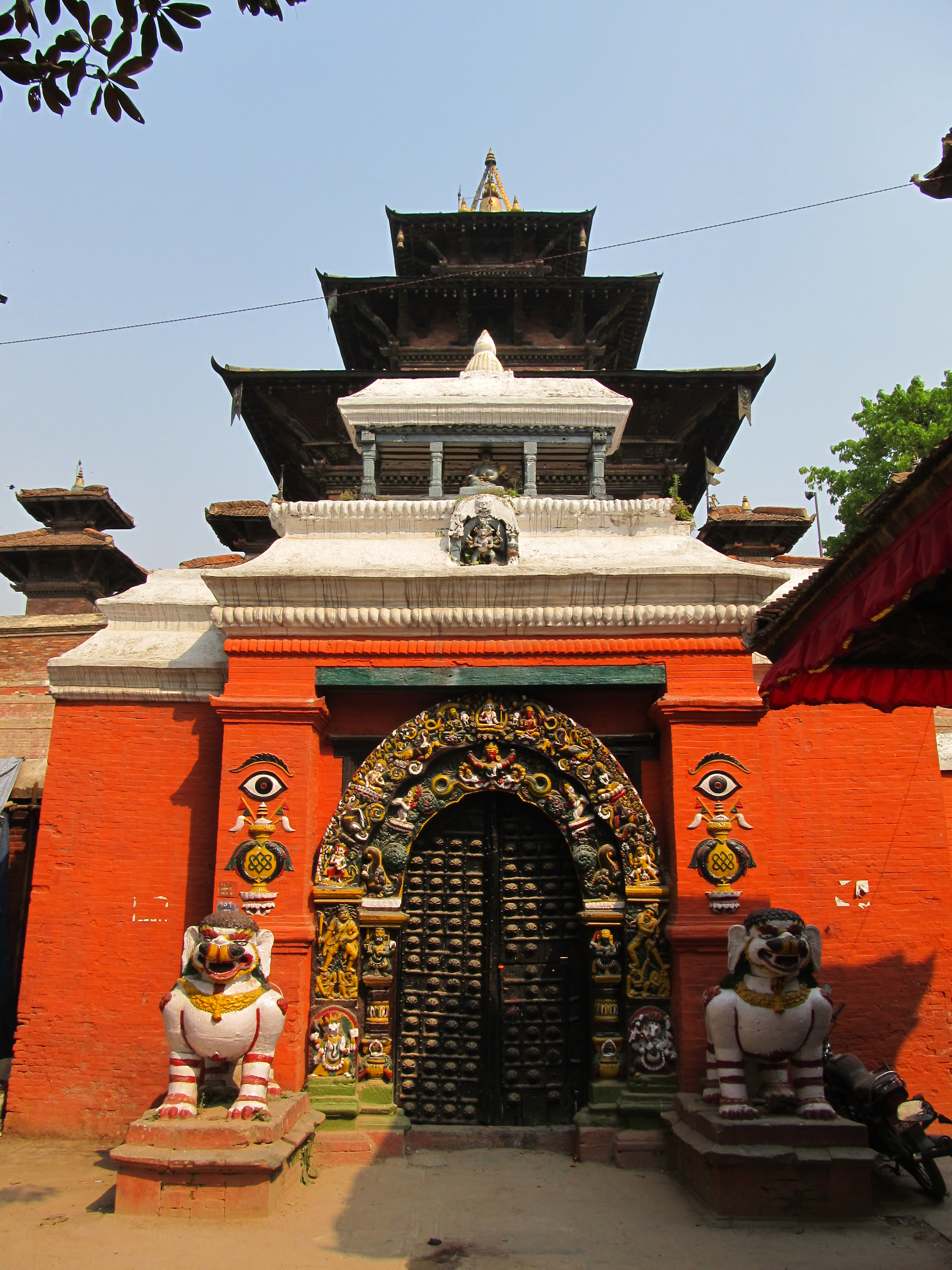 Kathmandu Darbar - Gate to Taleju Temple